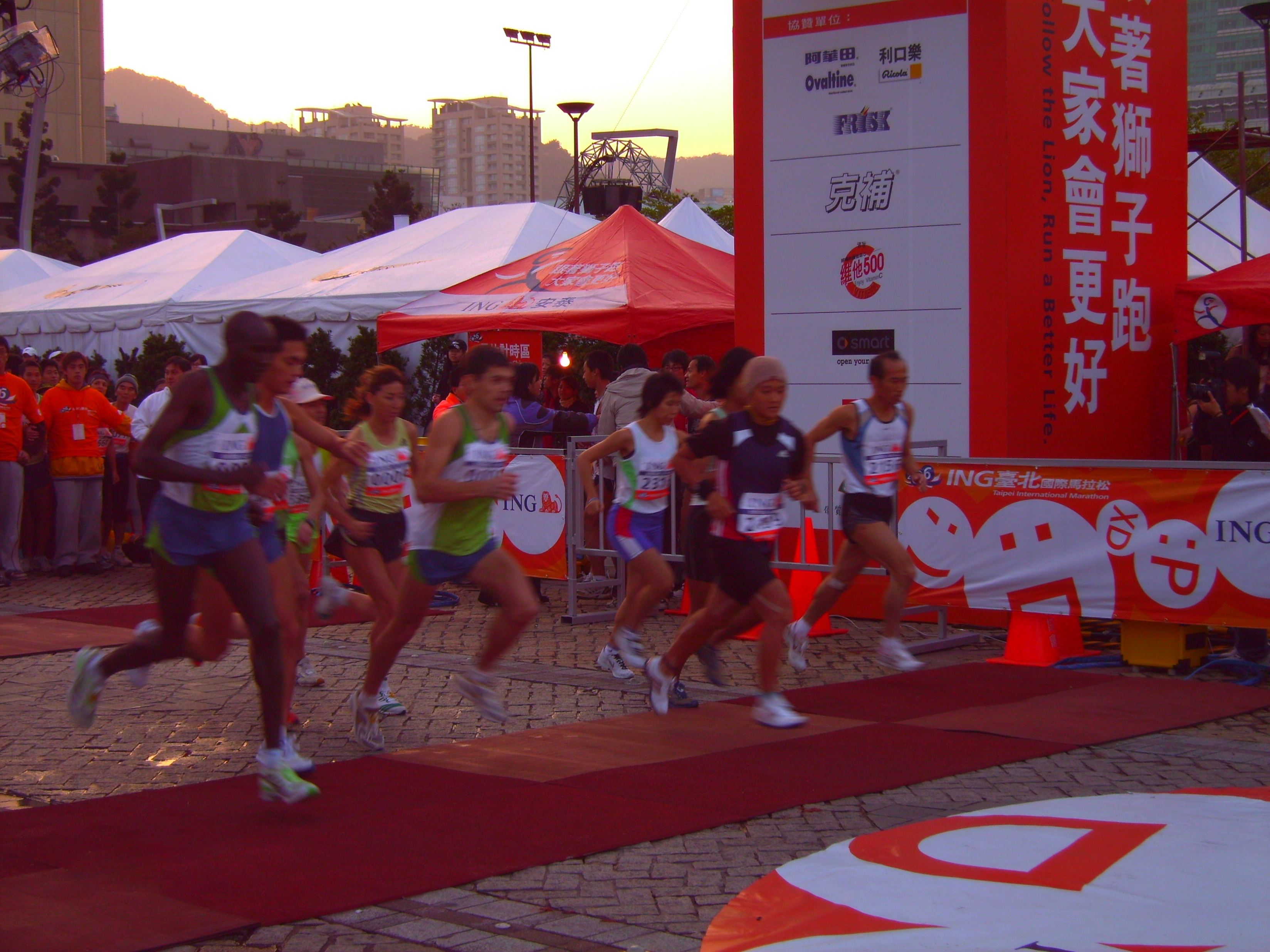 Elite Runners started at 2006 ING The 10Th Taipei International Marathon.